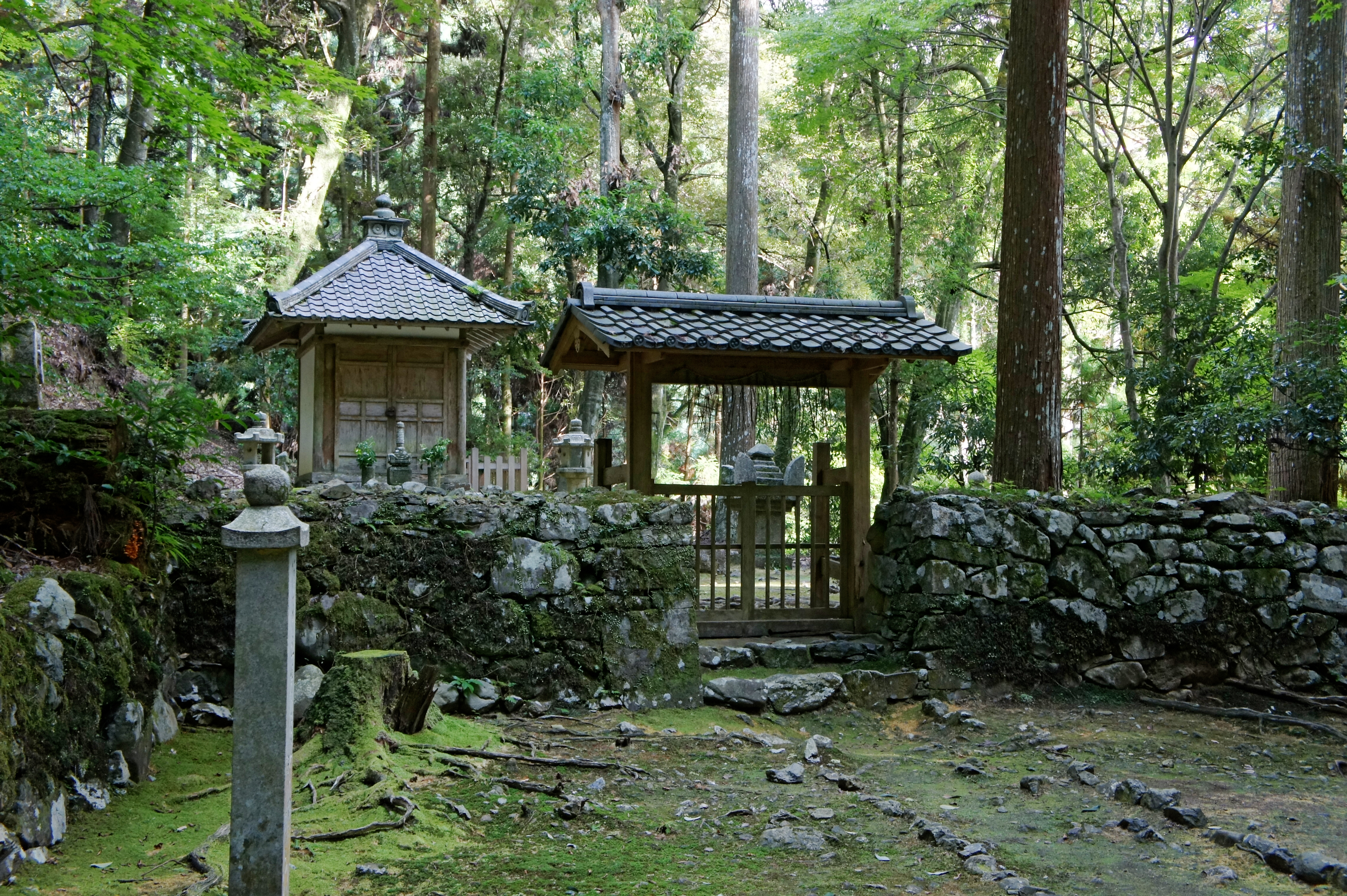 Kōzan-ji in Kita-ku, Kyoto, Kyoto Prefecture, Japan. It was registered as part of the UNESCO World Heritage Site "Historic monuments of ancient Kyoto".